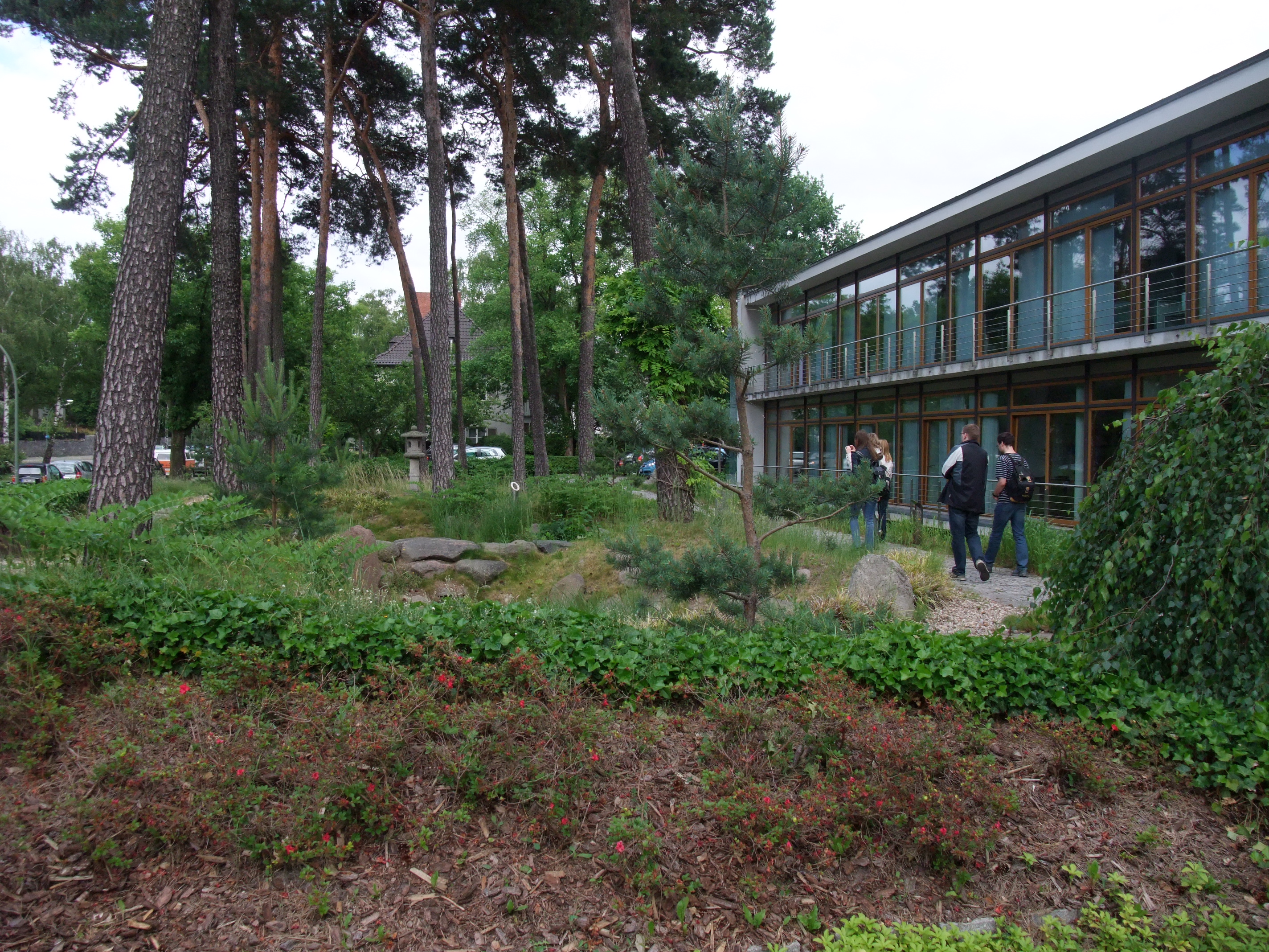 Japanese-German Center Berlin, Germany. Garden in front of the building.